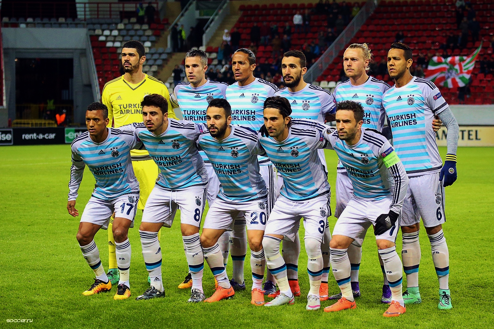 Fenerbahçe SK - List of players: (top row) Fabiano Ribeiro, Robin van Persie, Bruno Alves, Mehmet Topal, Simon Kjær, Josef de Souza, (bottom row) Nani, Ozan Tufan, Volkan Şen, Hasan Ali Kaldırım, Gökhan Gönül